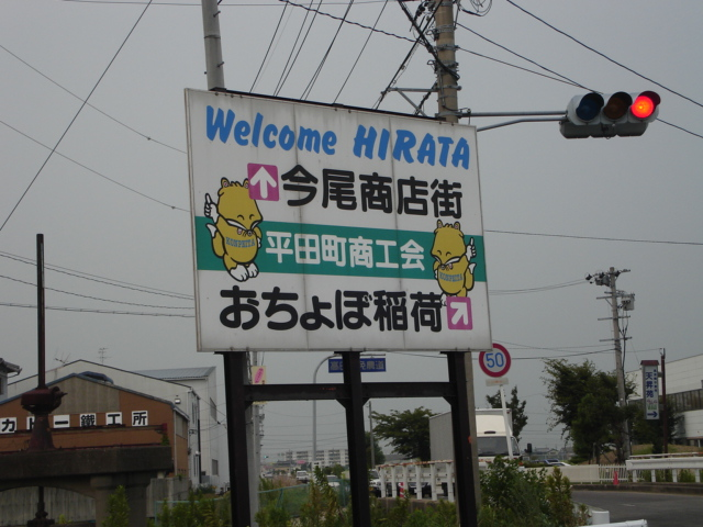 This picture was taken by myself in Hirata. It is available on my website